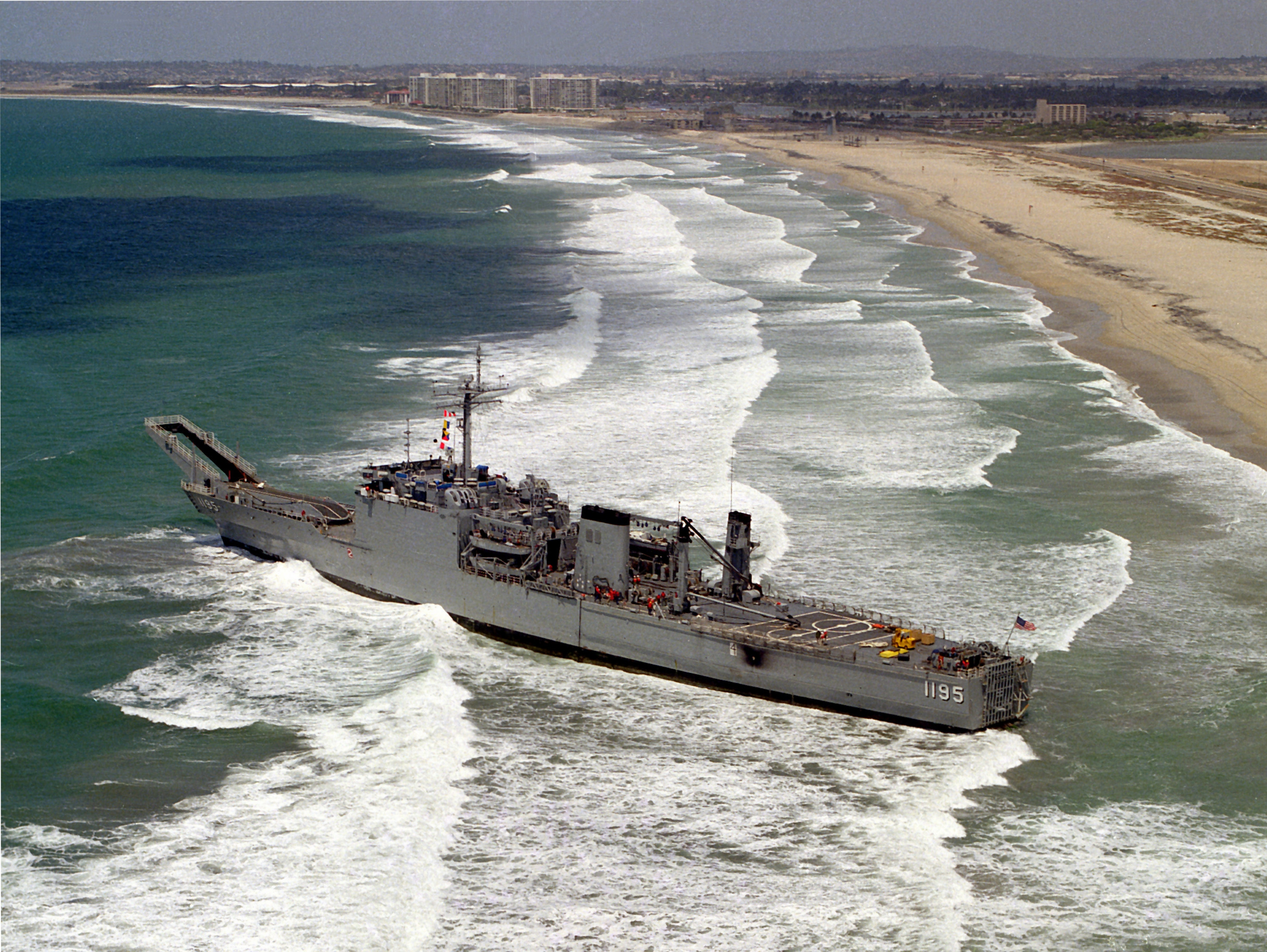 The U.S. Navy tank landing ship USS Barbour County (LST-1195) after broaching on Silver Strand, near San Diego, California (USA).